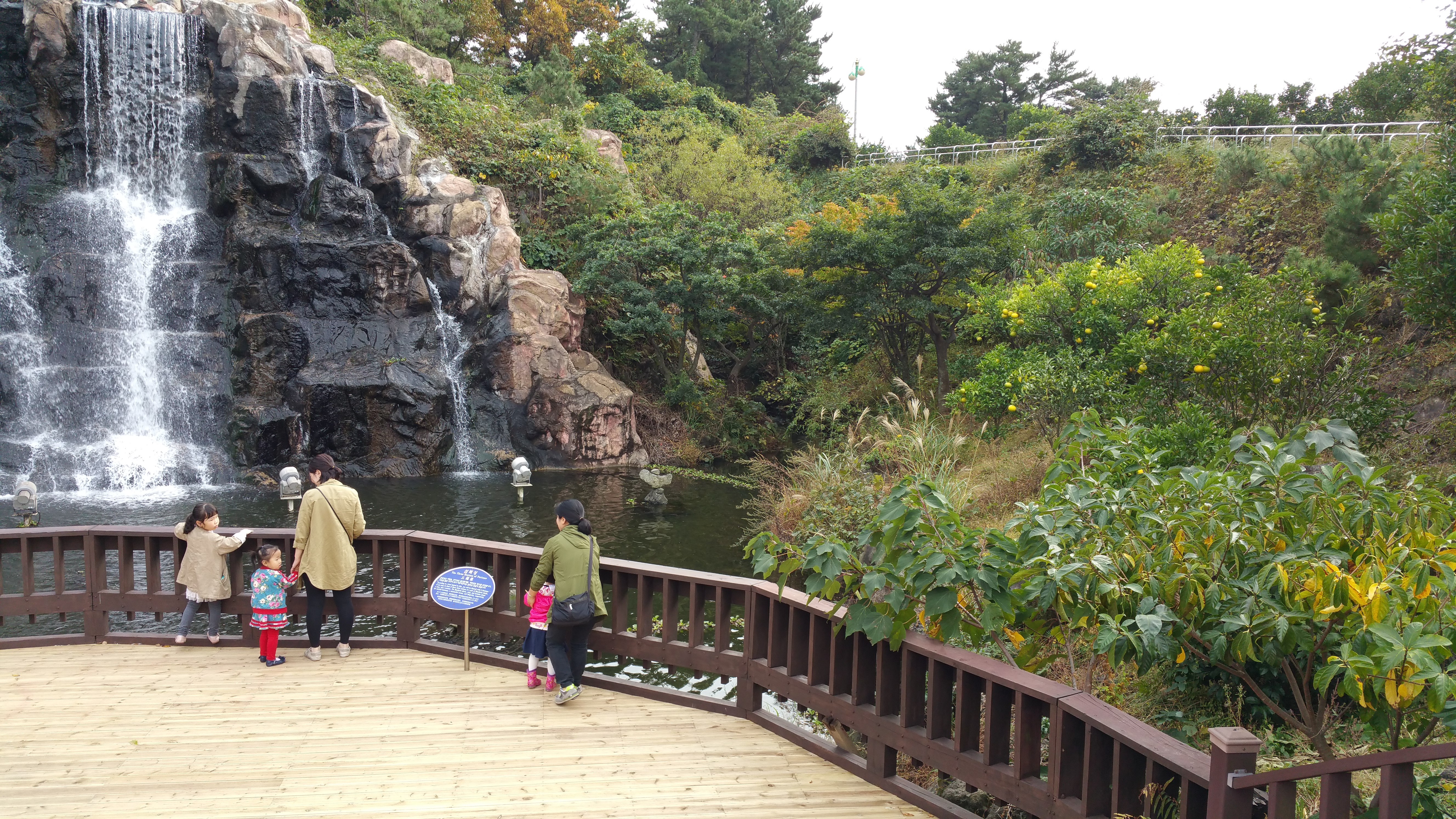 Seogwipo Citrus Museum, Jeju.